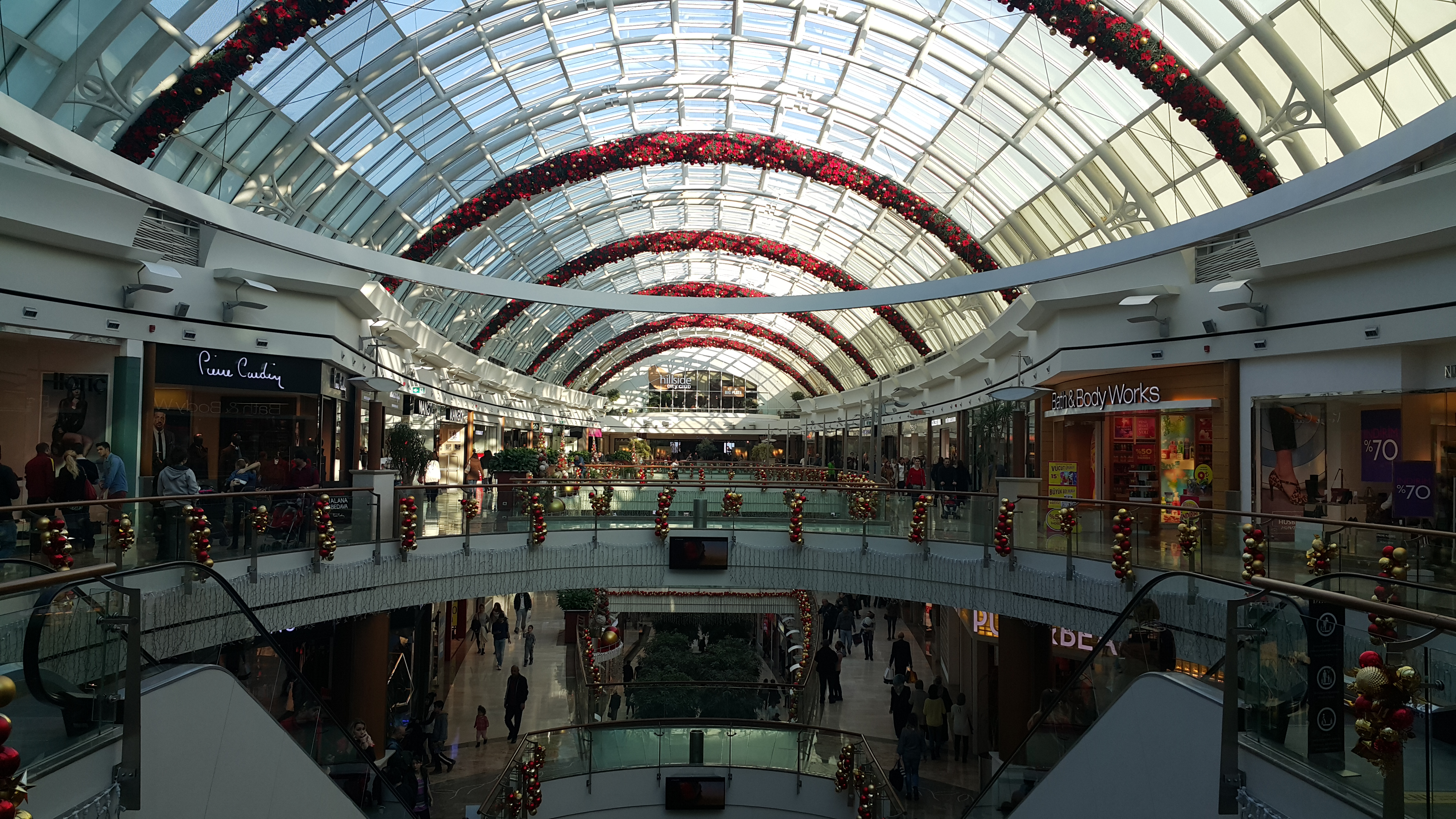 Interior of İstinye Park Mall at Christmas, İstanbul, Turkey.